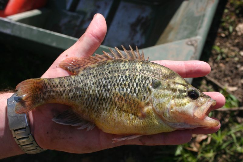 Canon 300D